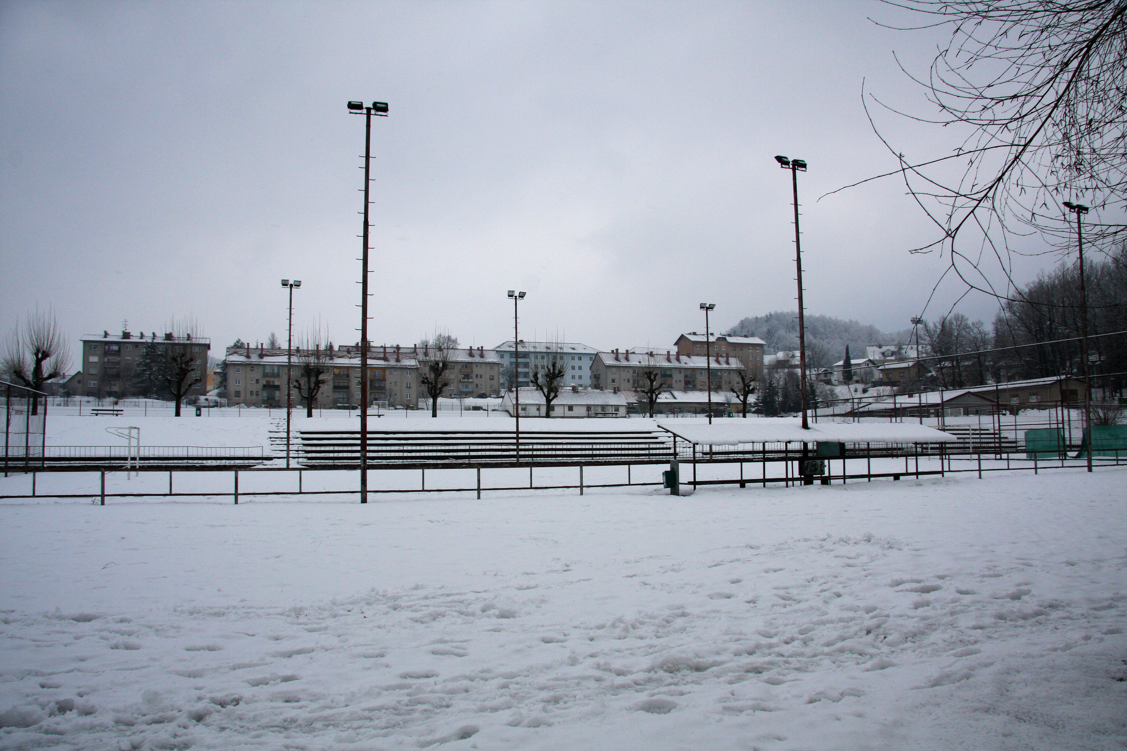 Football field and apartment blocks in Štore, Slovenia.